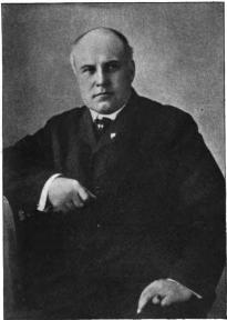 California Democratic candidate for governor Franklin K. Lane, 1902